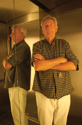 Rudi Koegler portrait